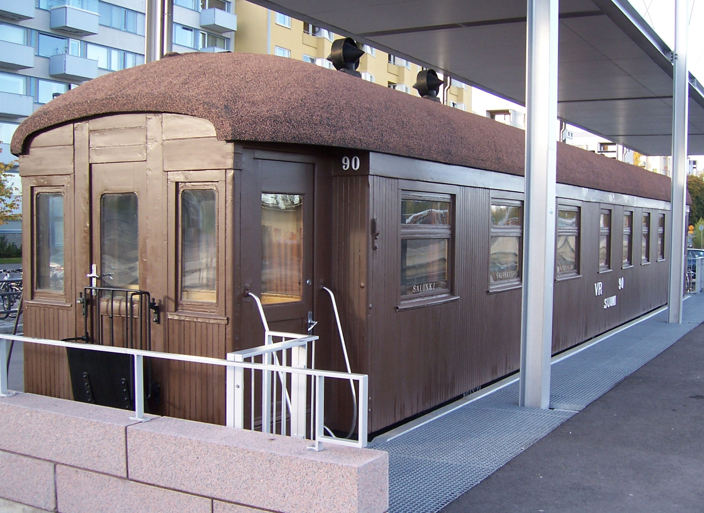 Mannerheim's railway carriage in Mikkeli